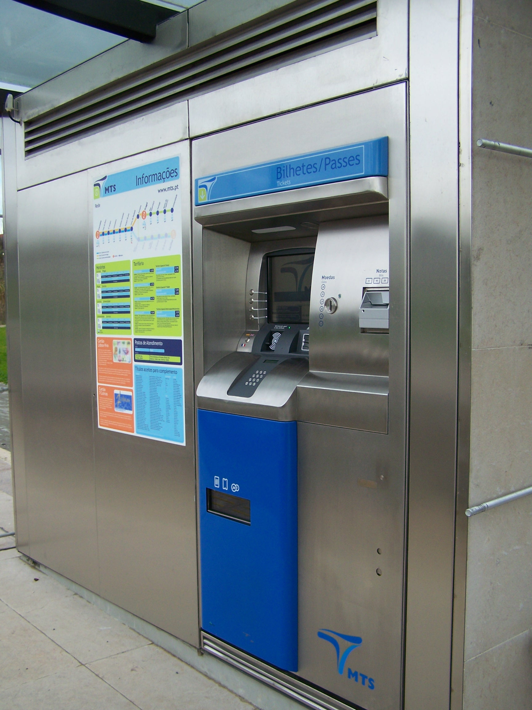 A ticket vending machine of the Metro Sul do Tejo, Almada, Portugal